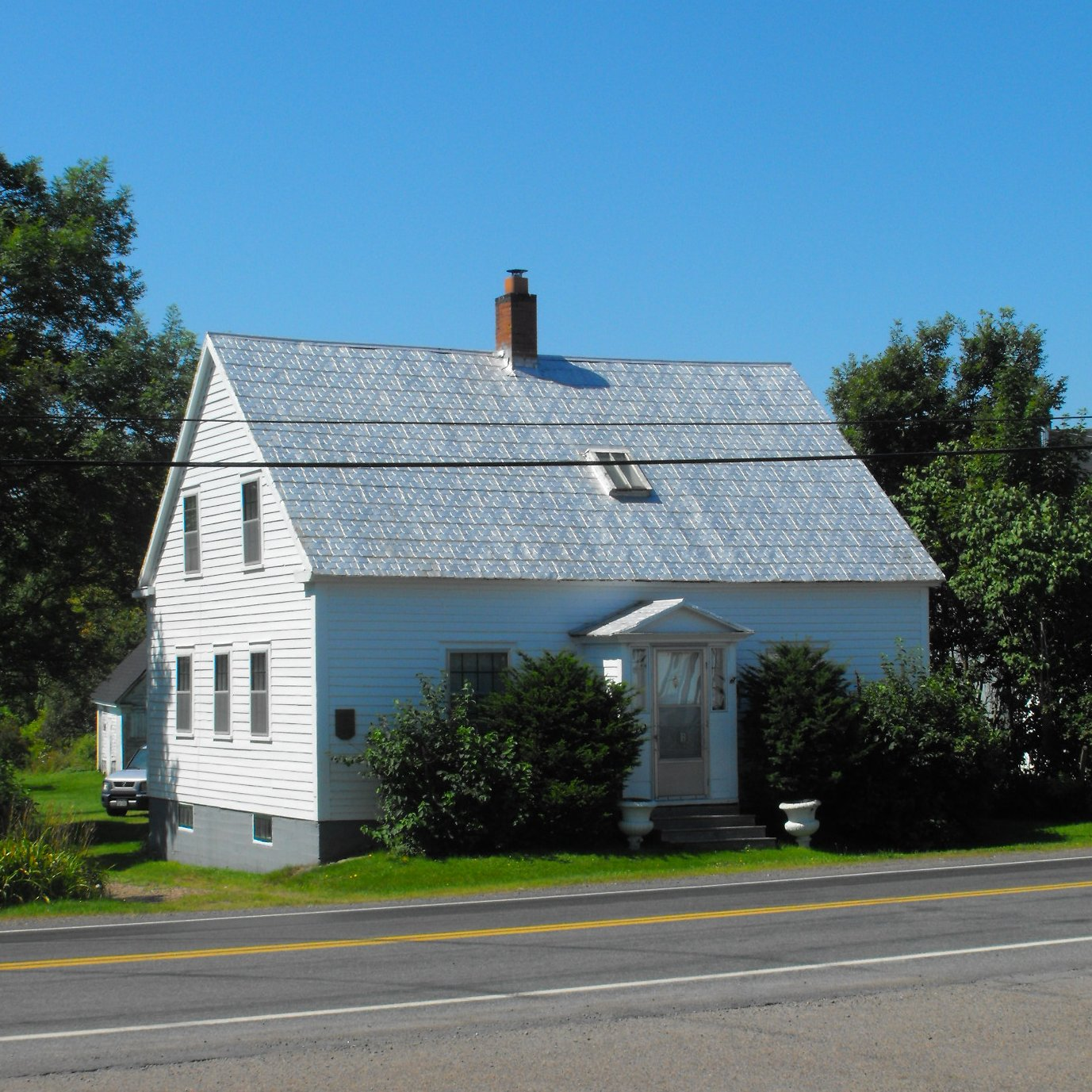 Former home of the poet Elizabeth bishop in Great Village, Nova Scotia